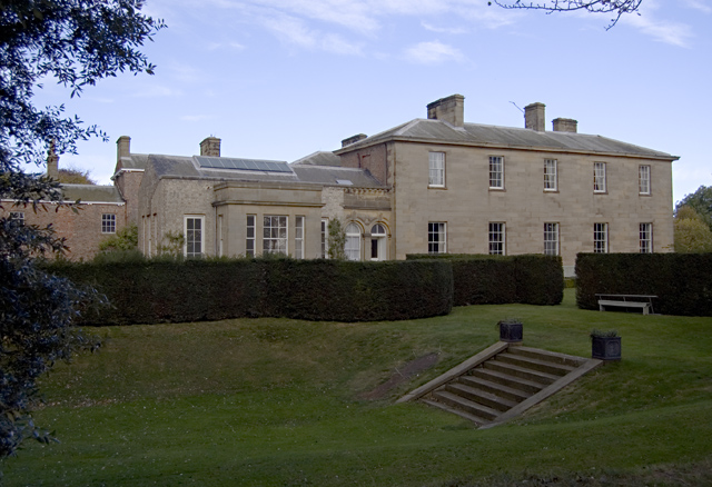 Saltmarshe Hall, Saltmarshe, East Riding of Yorkshire, England.Seen from the public footpath along the riverbank. The Grade 2 listed regency house was on the market for £2m in 2009. Set in 17 acres of grounds, the building was started in 1825 and completed three years later.